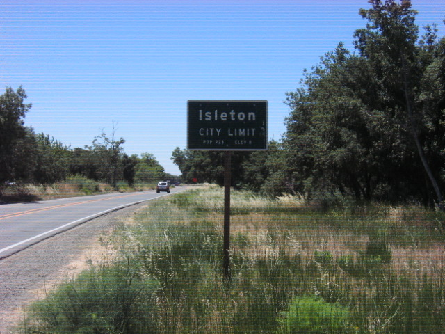 ISLETON CITY LIMIT SIGN ALONG WESTBOUND HWY 160 ON JUNE 25 2010